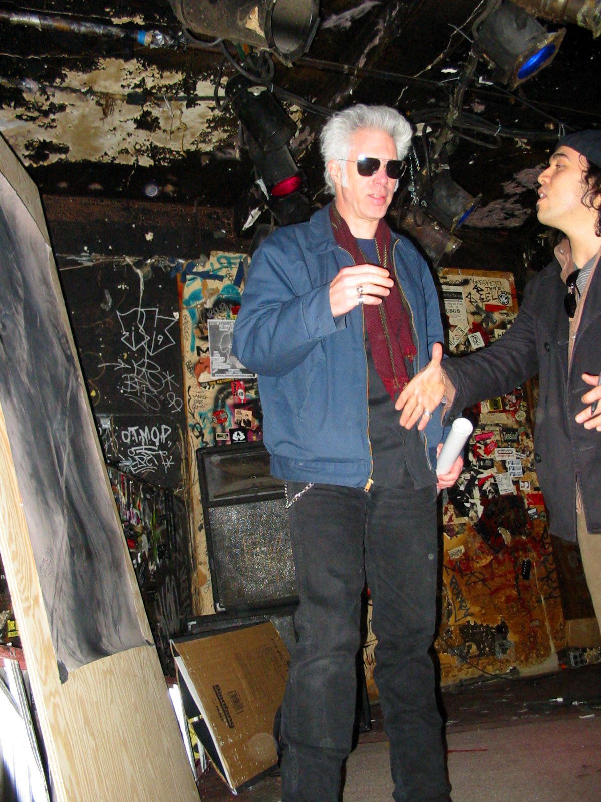 American film director Jim Jarmusch at CBGB's club in New York City on November 30, 2003.